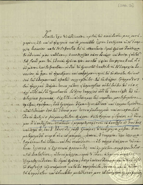 Serafim_of_Ganos_Letter_to_Ion_Dragoumis